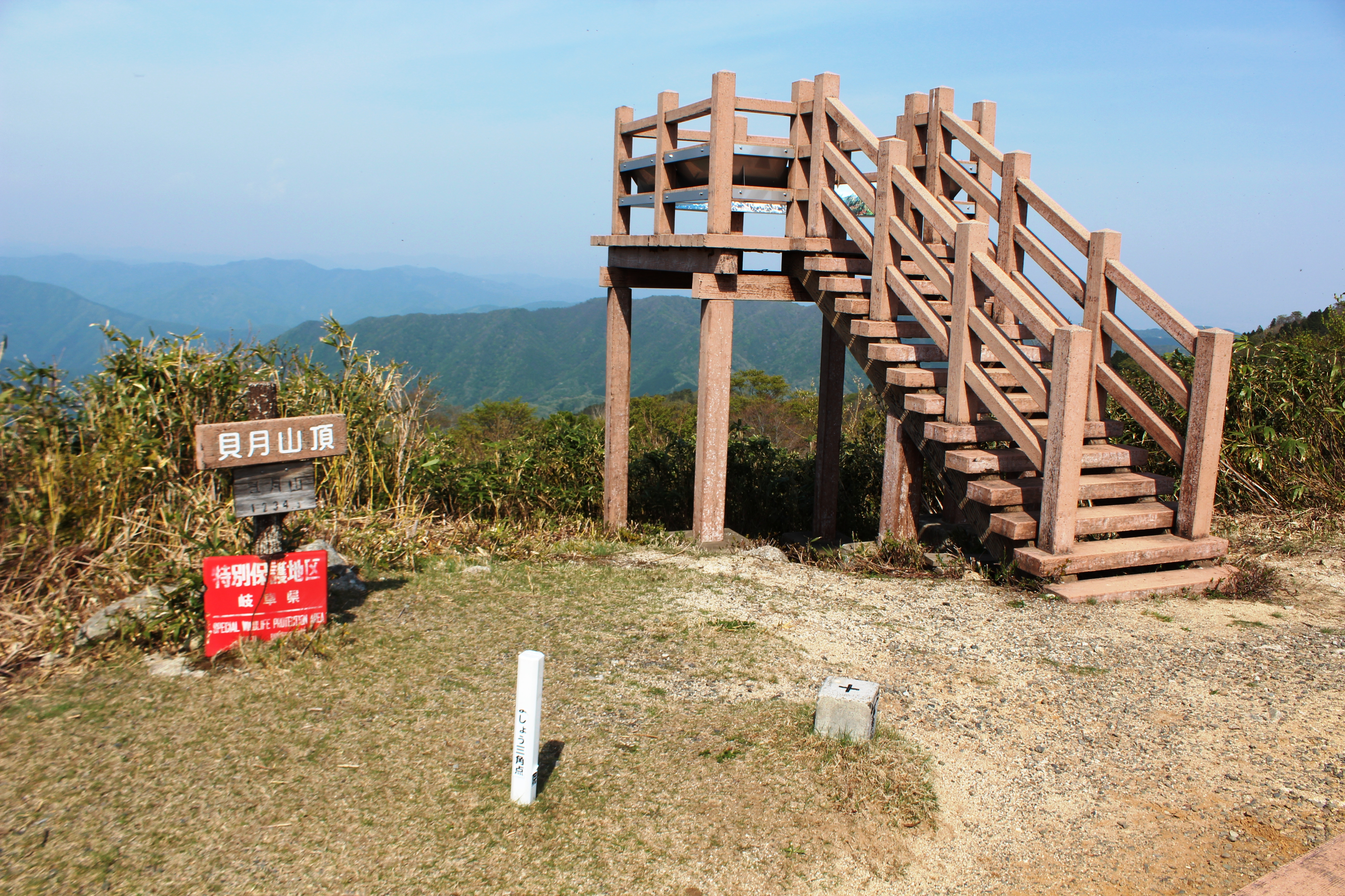 Peak of Mount Kaizuki, in Ibigawa, Gifu prefecture, Japan.